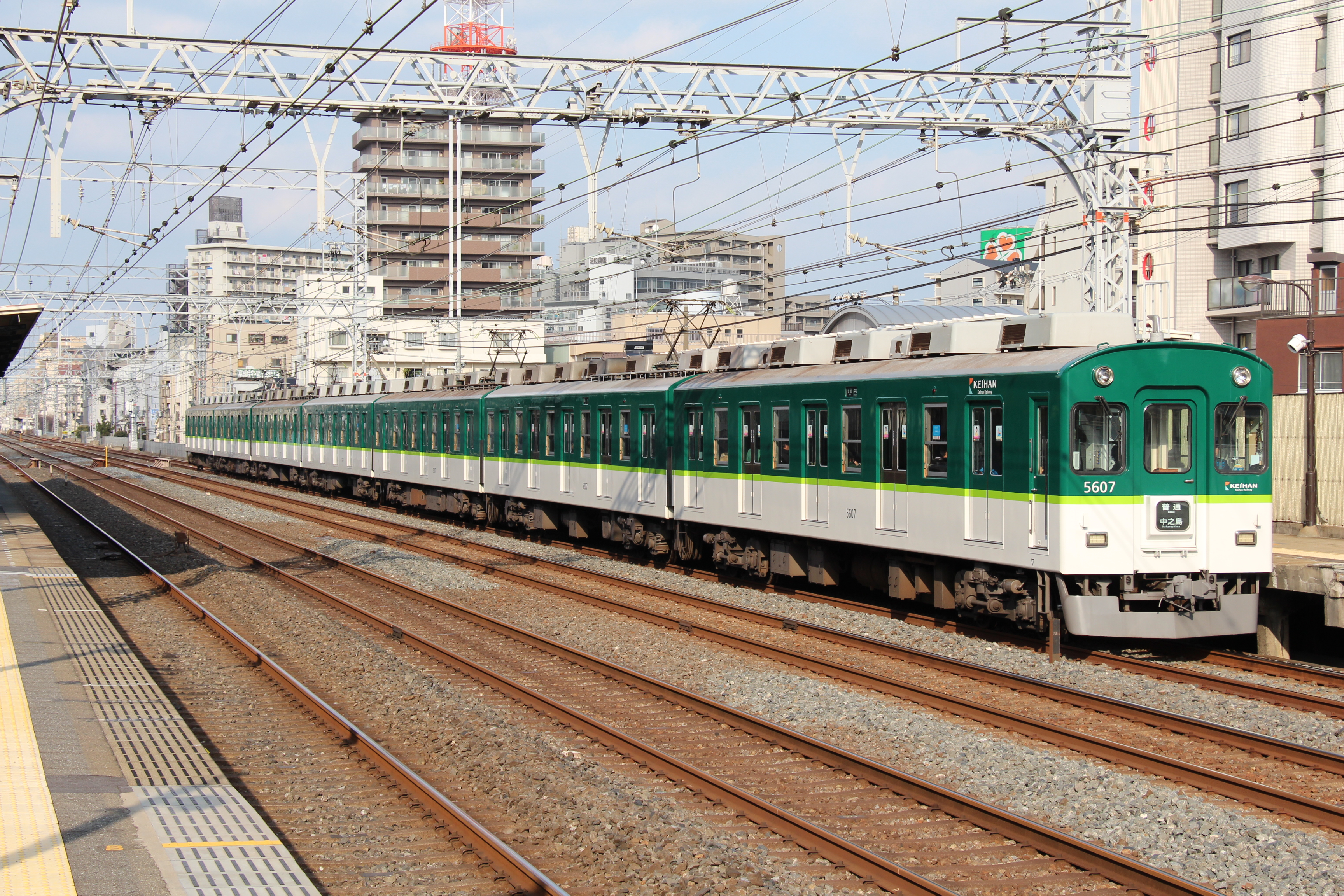 Keihan 50000 series EMU set 5557 at Noe Station